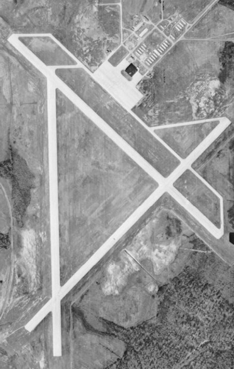 Aerial photograph of former Anniston Air Force Base in Talladega, Alabama, United States